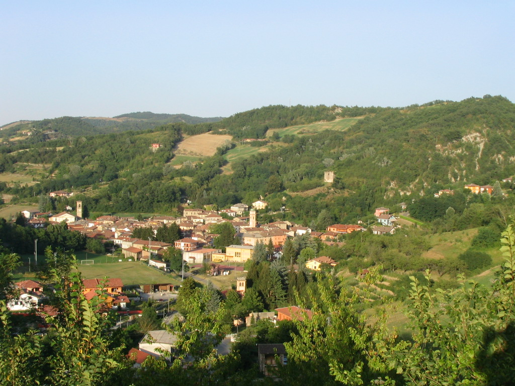 Panorama di Garbagna